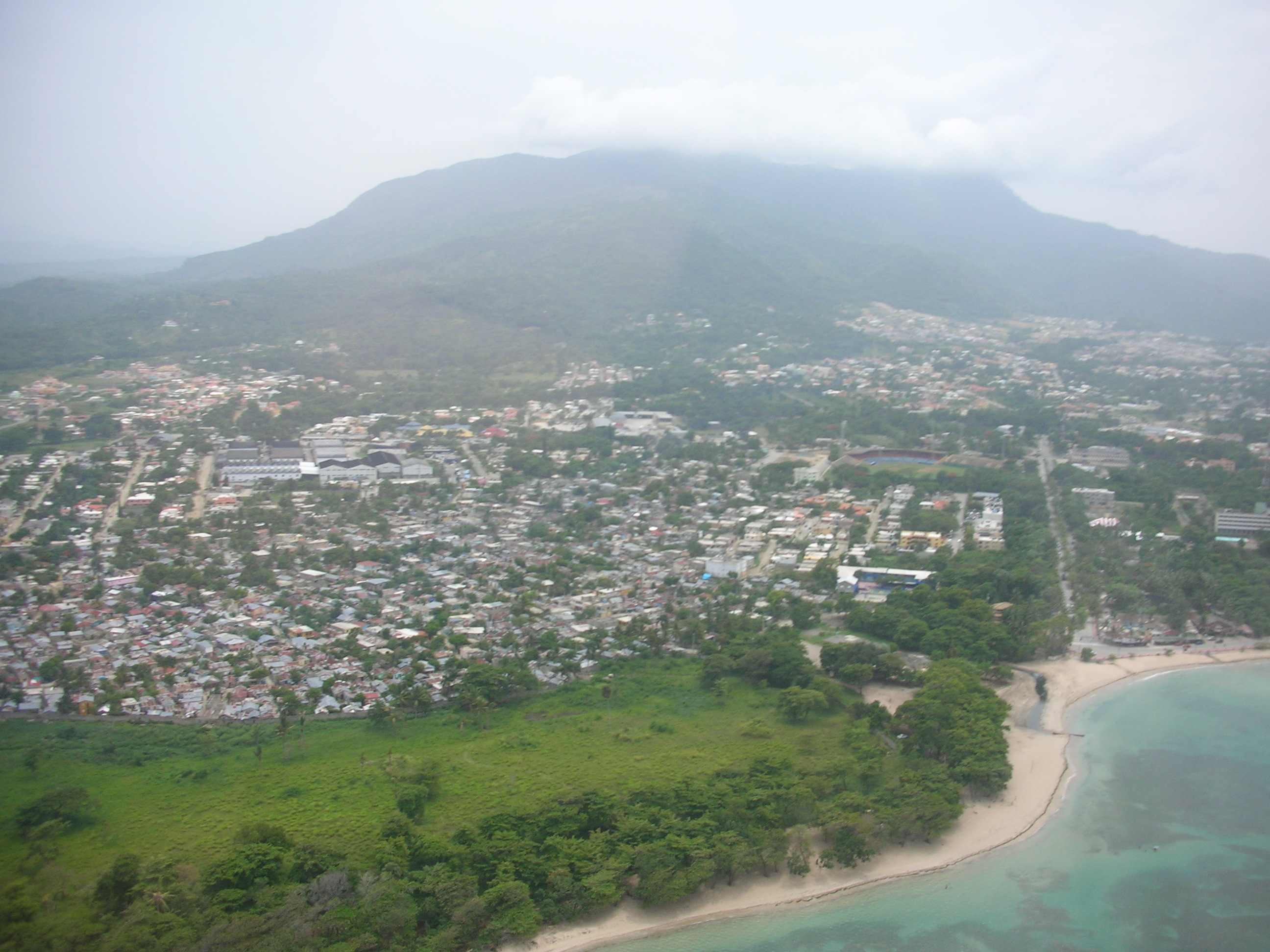 A view of Puerto Plata from the air looking towards Pico Isabel de Torres.